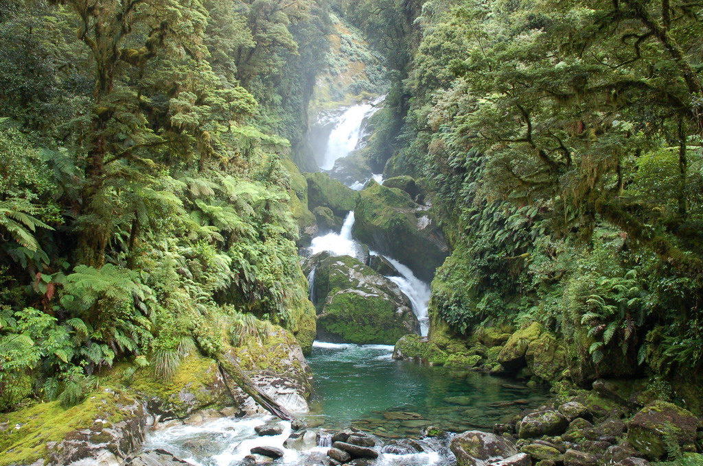 Waterfall on Milford Track